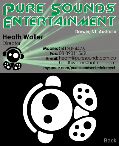 A business card I designed for Pure Sounds Entertainment. Mascot (the cute thing with the headphones on) was originally crafted by my friend, Alison Buse.